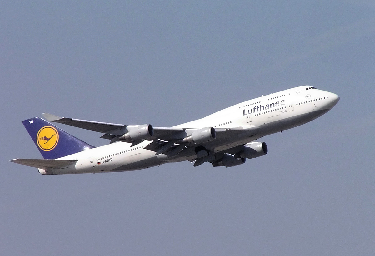 Lufthansa Boeing 747-400 (D-ABTD "Hamburg") taking off in Frankfurt (EDDF)